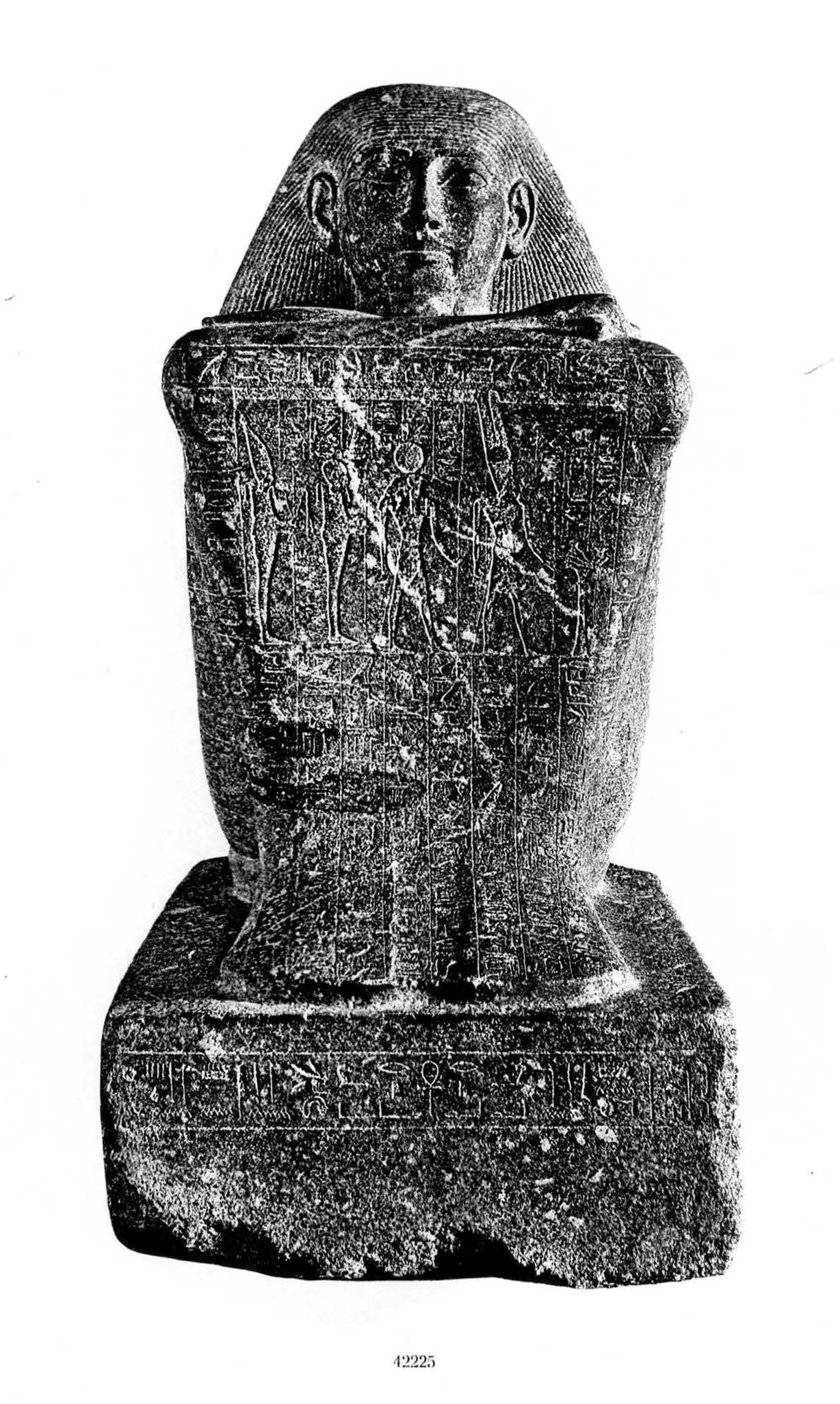 Block statue of the ancient Egyptian priest Nebneteru, dedicated by his son, the priest Hor IX. Reign of Osorkon II, 22nd Dynasty, Third Intermediate Period. Found in Karnak Great Temple, now in Cairo Museum (CG 42225 / JE 37521).